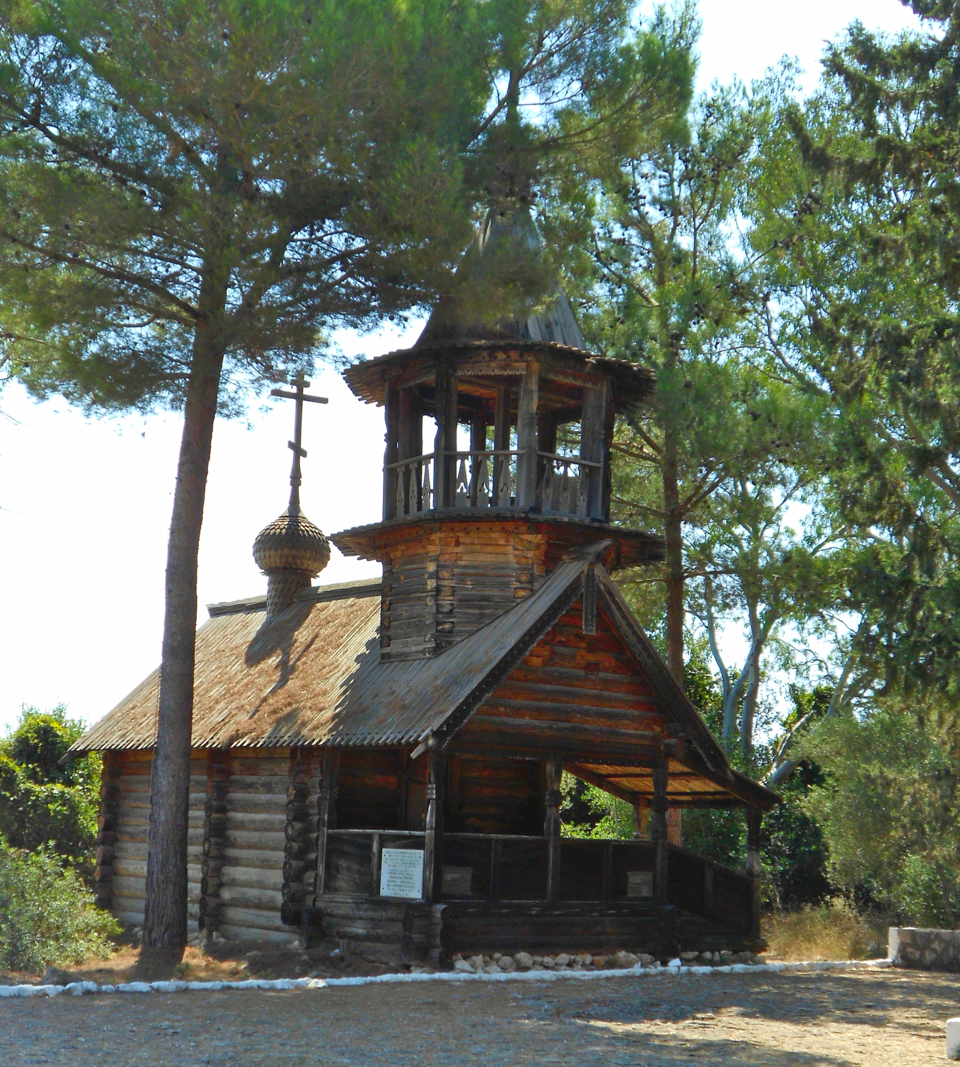 View of the Russian Chapel built on Sfaktiria Island, Greece